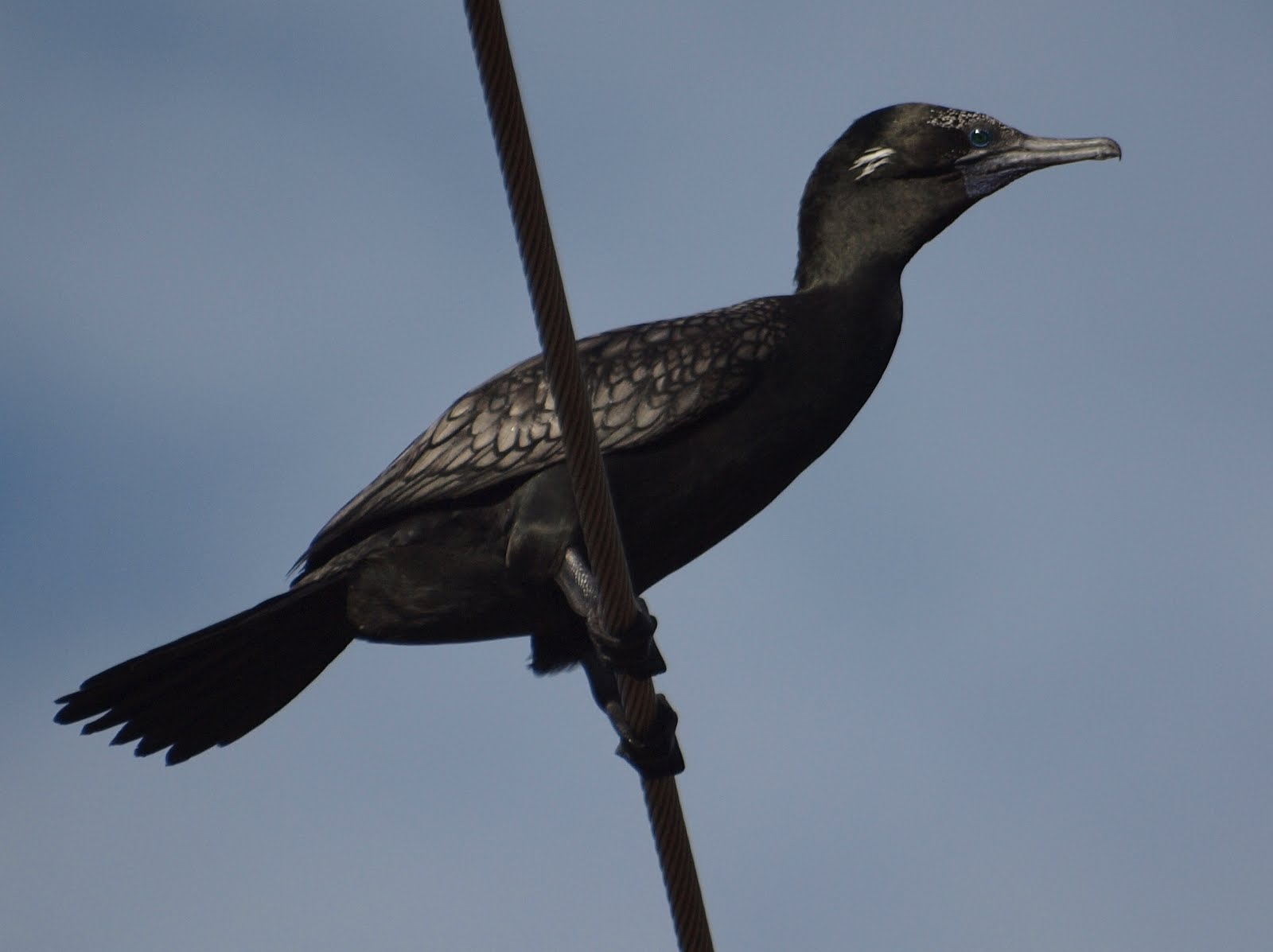 A Little Black Cormorant in Canberra, Australia.